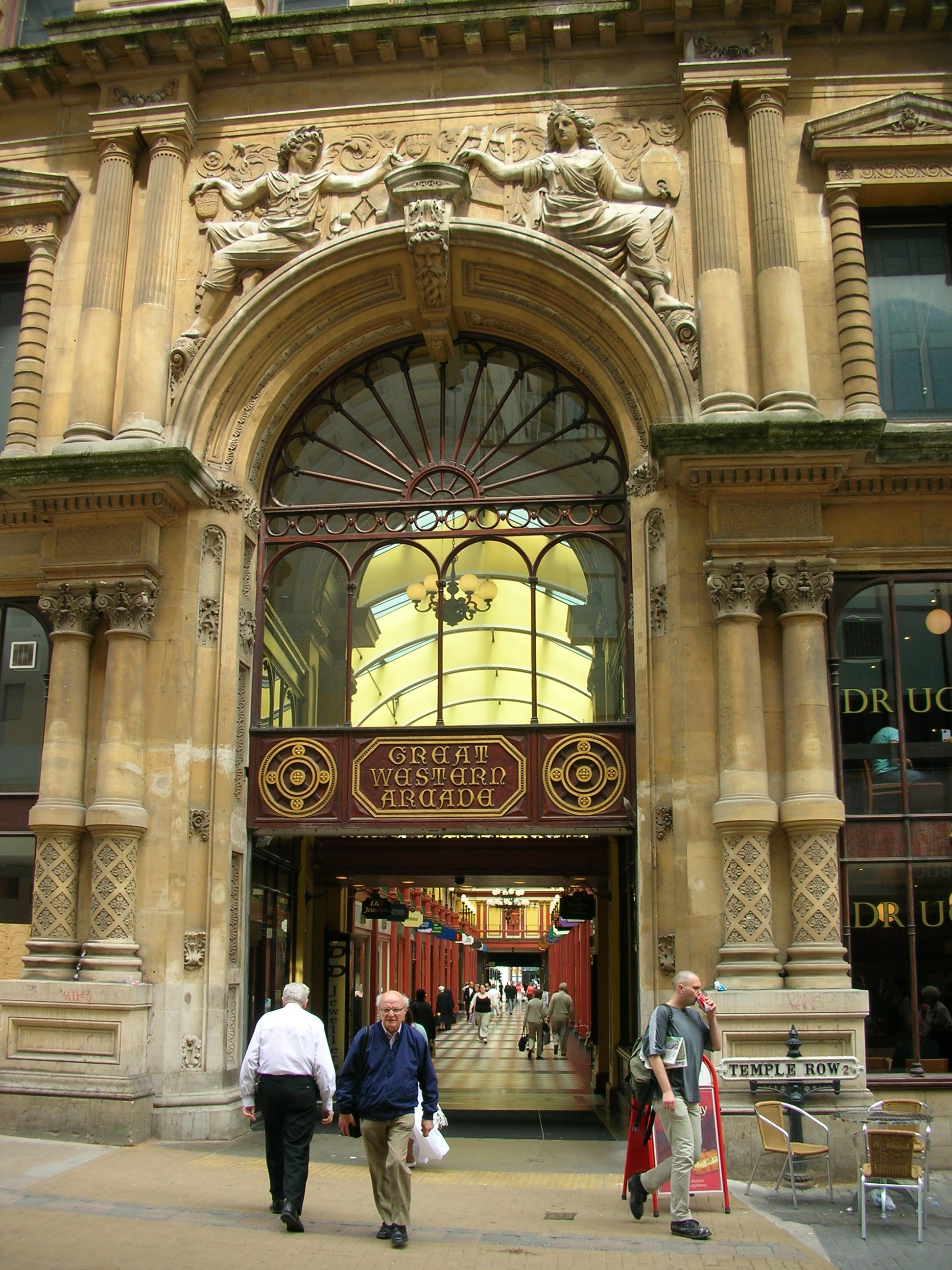 The Temple Row entrance to the Great Western Arcade, Birmingham, England. Photographed by me. Oosoom